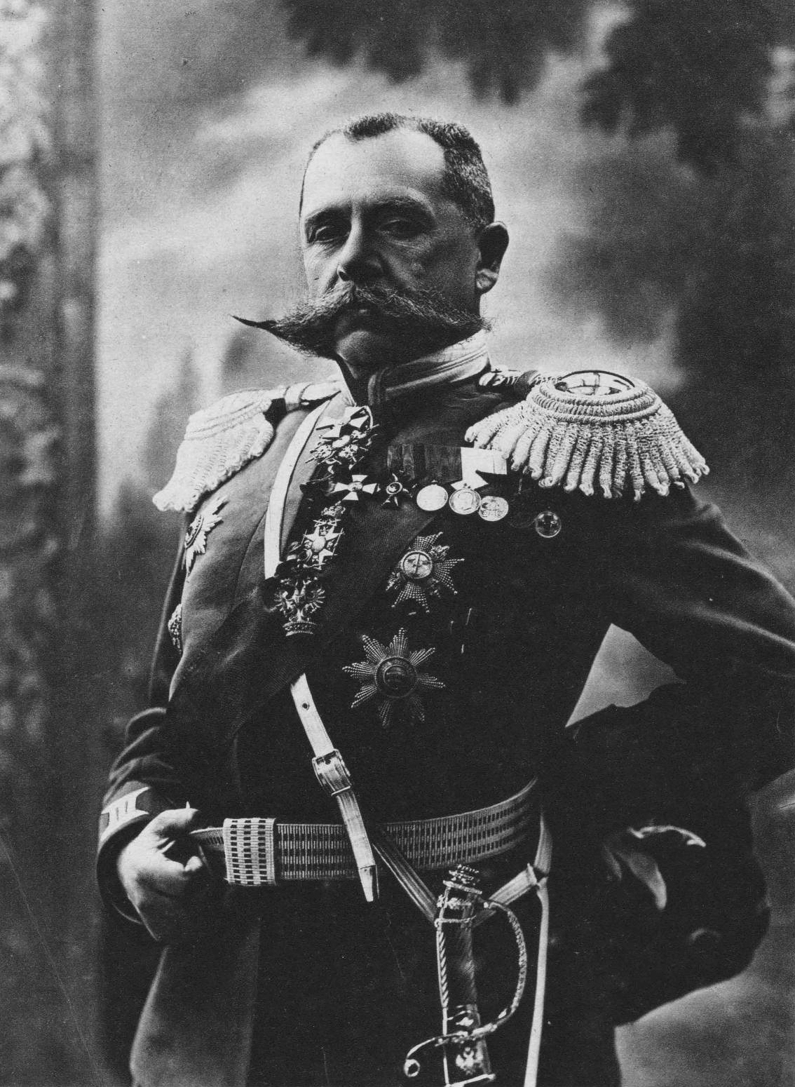 General Pavel Karlovich Rennenkampf in 1914